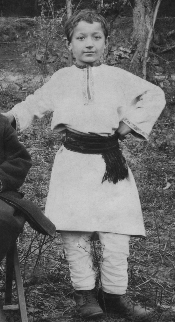 Jacques Hnizdovsky as a child in the village of Pylypche